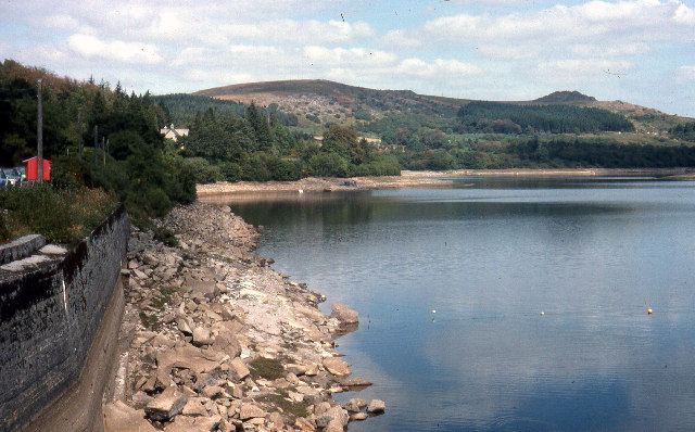 Burrator Reservoir July 1976. Burrator reservoir during the drought of summer 1976. Parts of Tavistock were on standpipe water supplies by August.